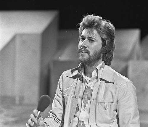 Barry Gibb (Bee Gees) in AVRO's TopPop (Dutch television show) in 1973